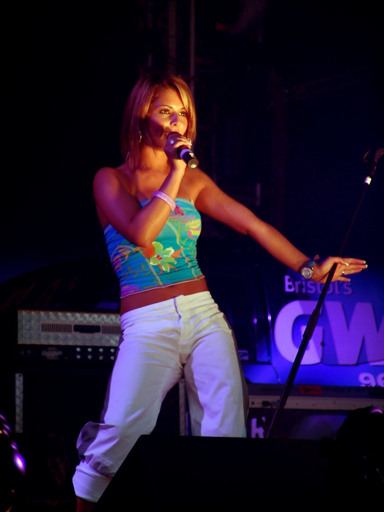 Cheryl Tweedy from Girls Aloud